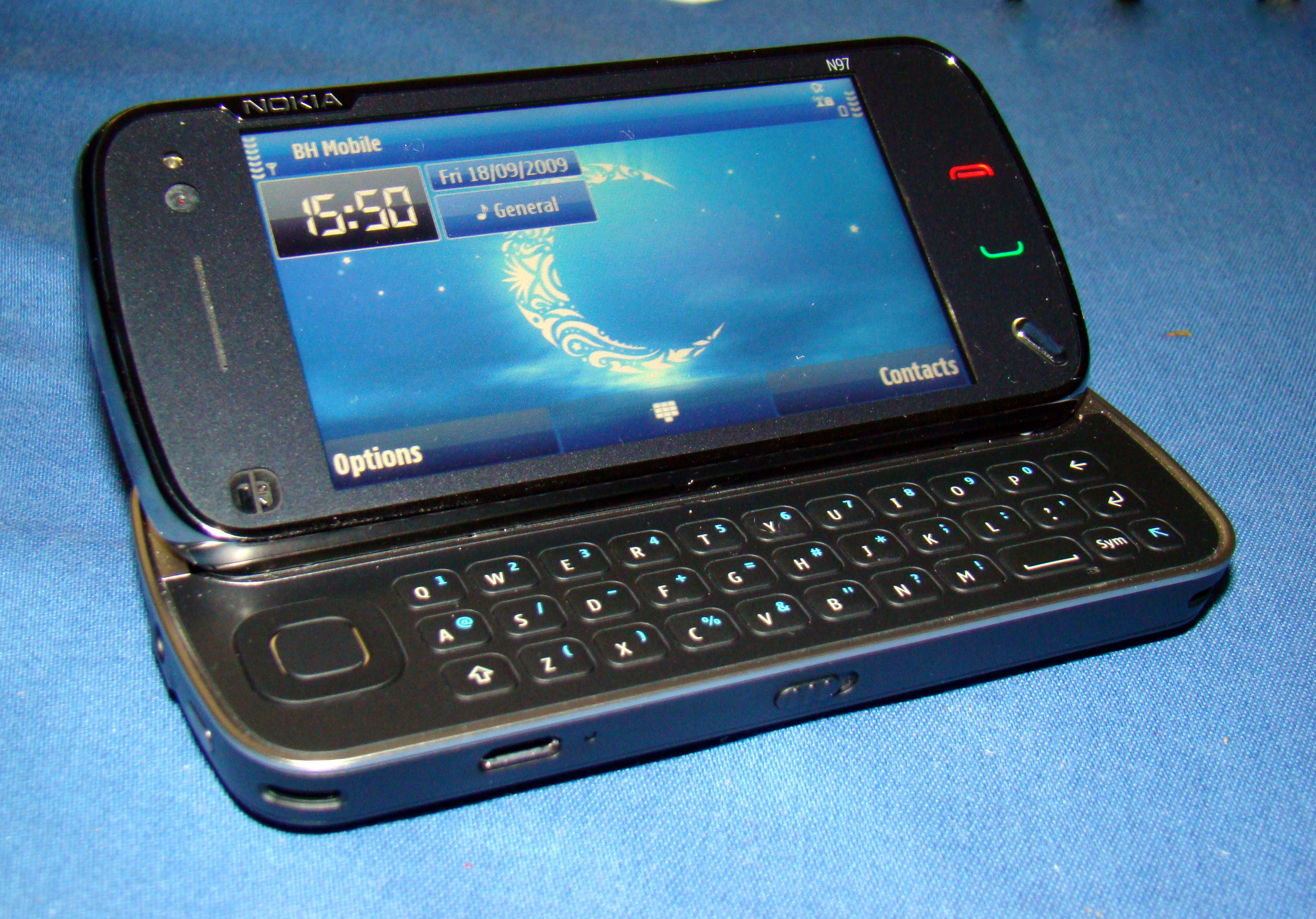 Nokia N97 photo.